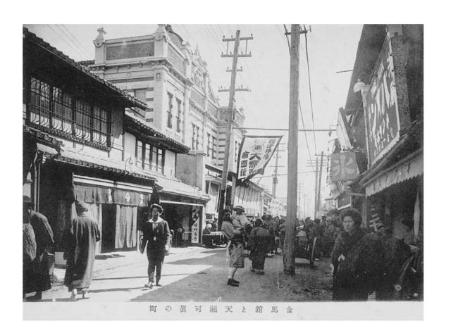 Kinba-kan (movie theater) on Amagase-Kama street in Okayama city.